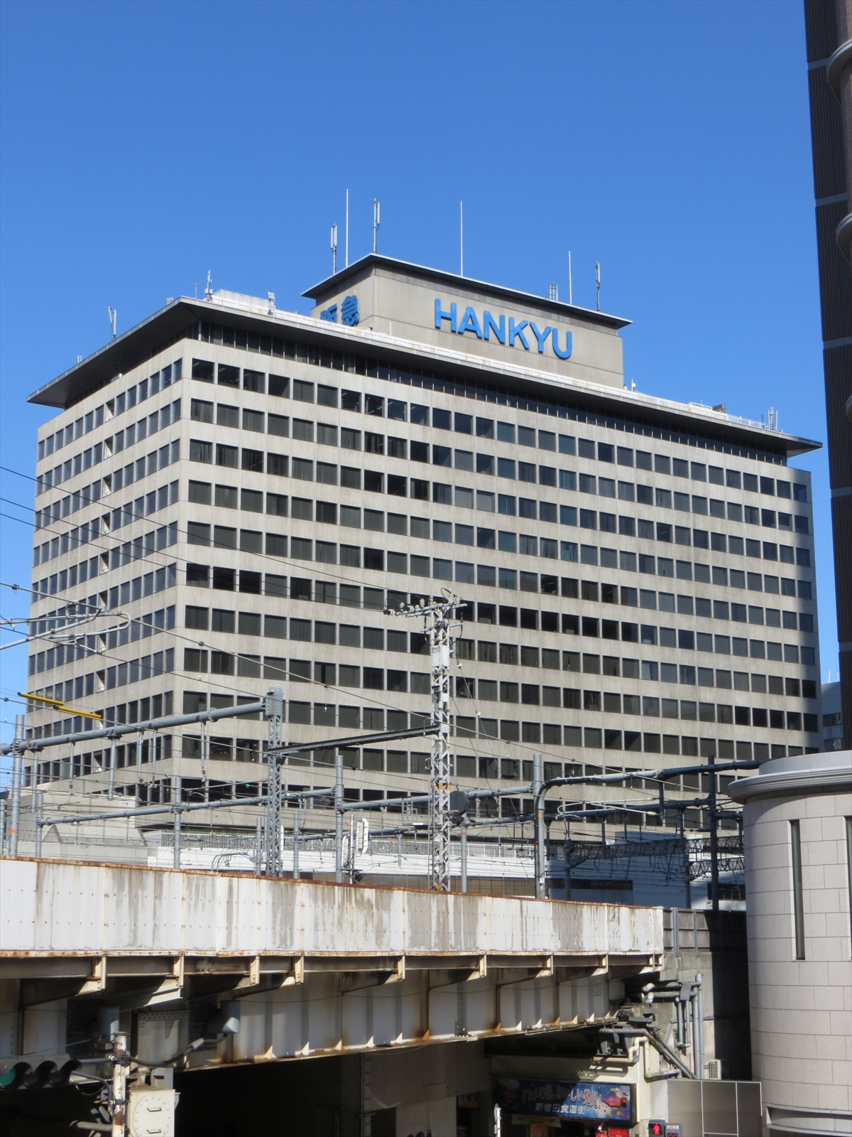 Hankyu Terminal Building.